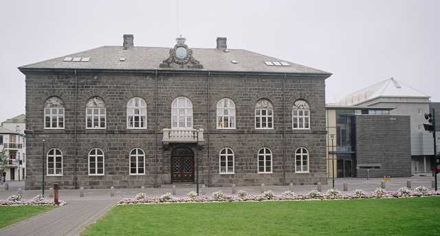 Iceland's Parliamentary Building in Reykjavík